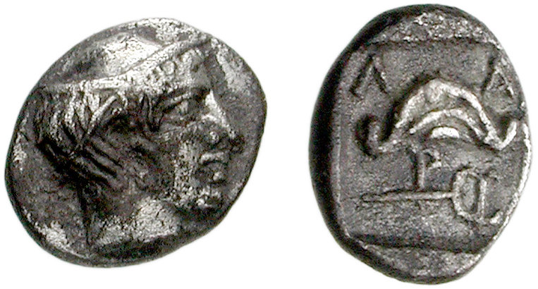 Larissa, 500-478 BC. Silver obol (10mm, 0.63 g). Head of Jason right, wearing petasos / ΛΑΡ(ΙΣΣΑΙΩΝ) Golden Fleece and caduceus.